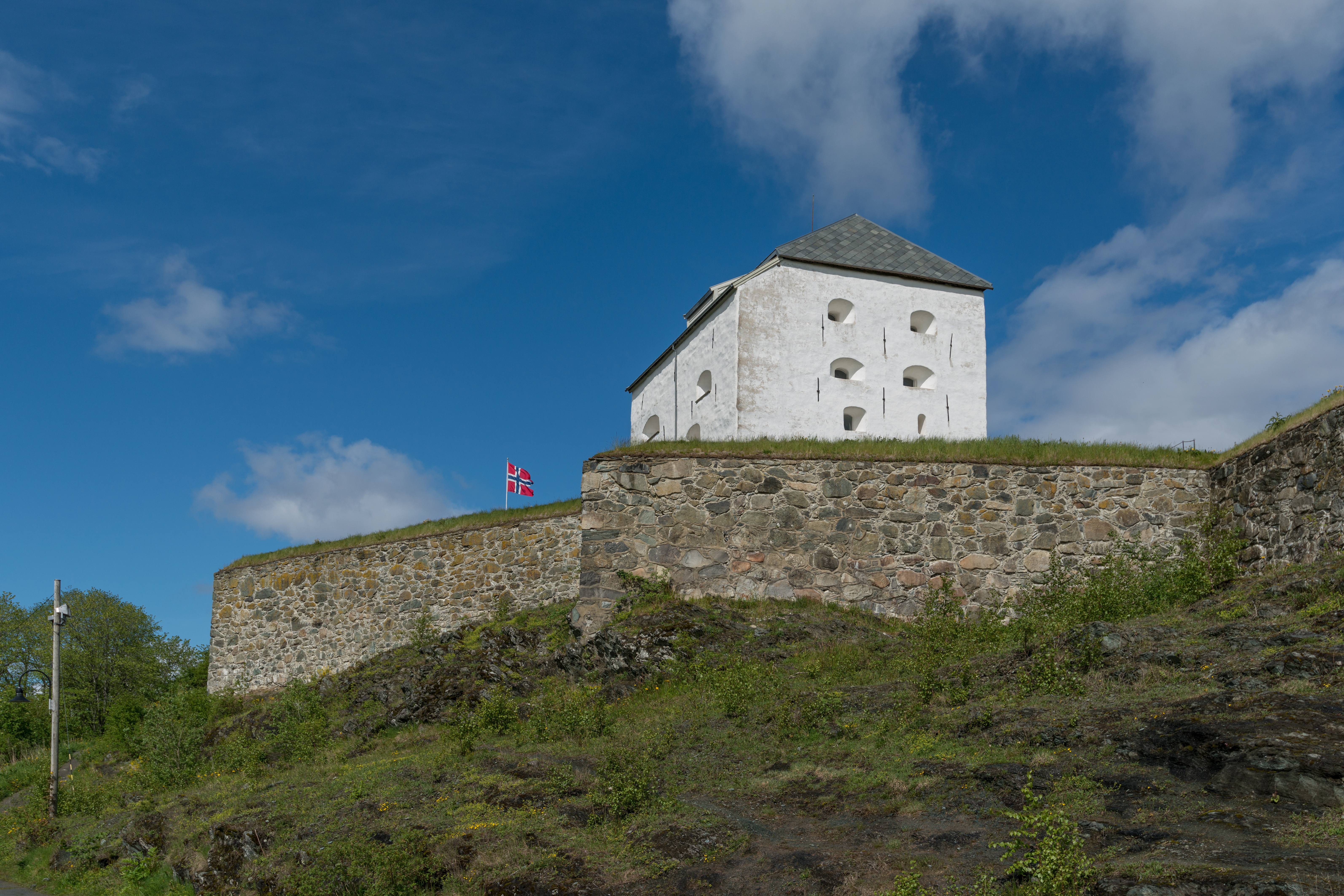 A south view of Kristiansten Festning, Trondheim